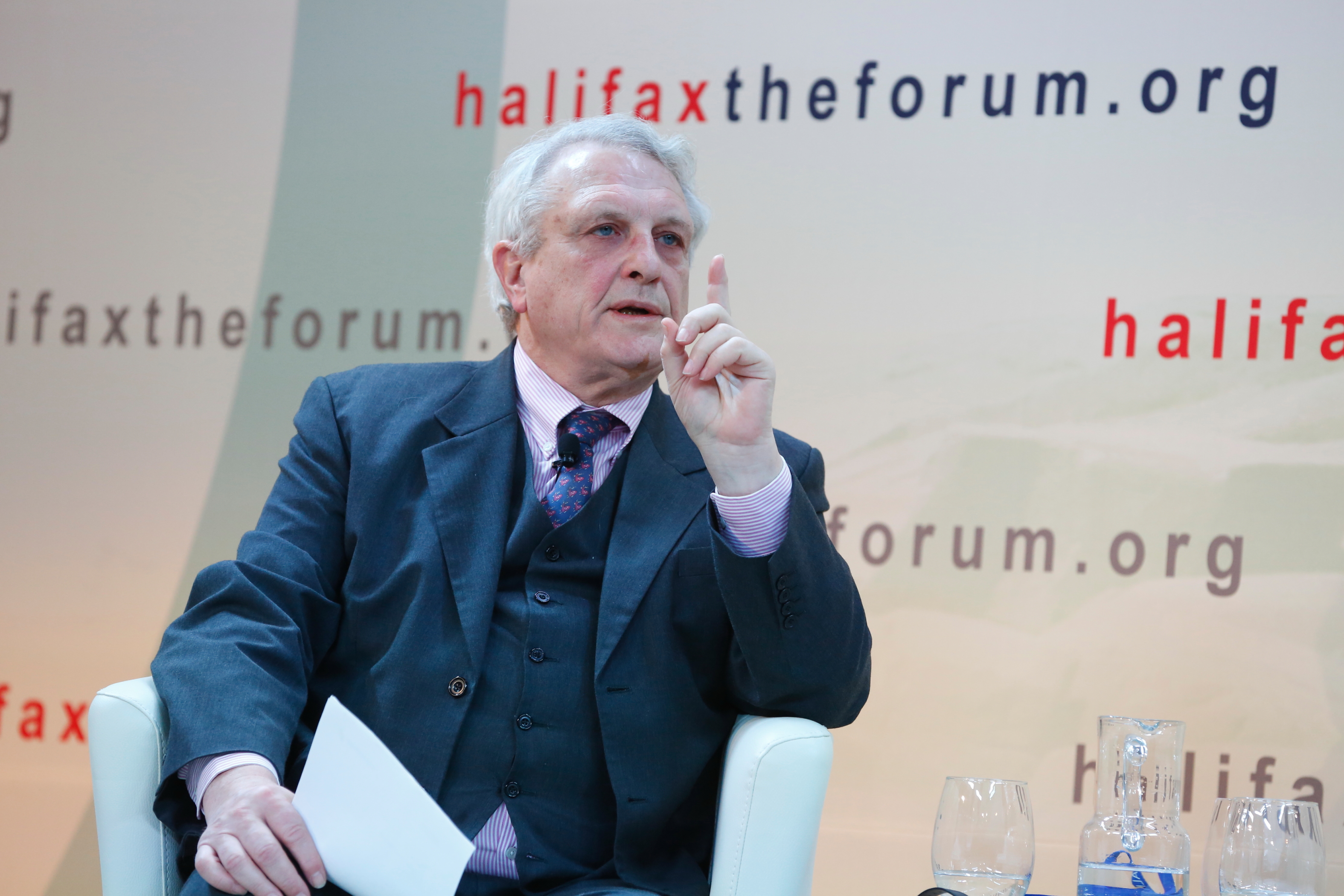 Josef Joffe speaks on a panel entitled "The Good Guys? The Special Burden of Democratic Nations" at the 2012 Halifax International Security Forum.